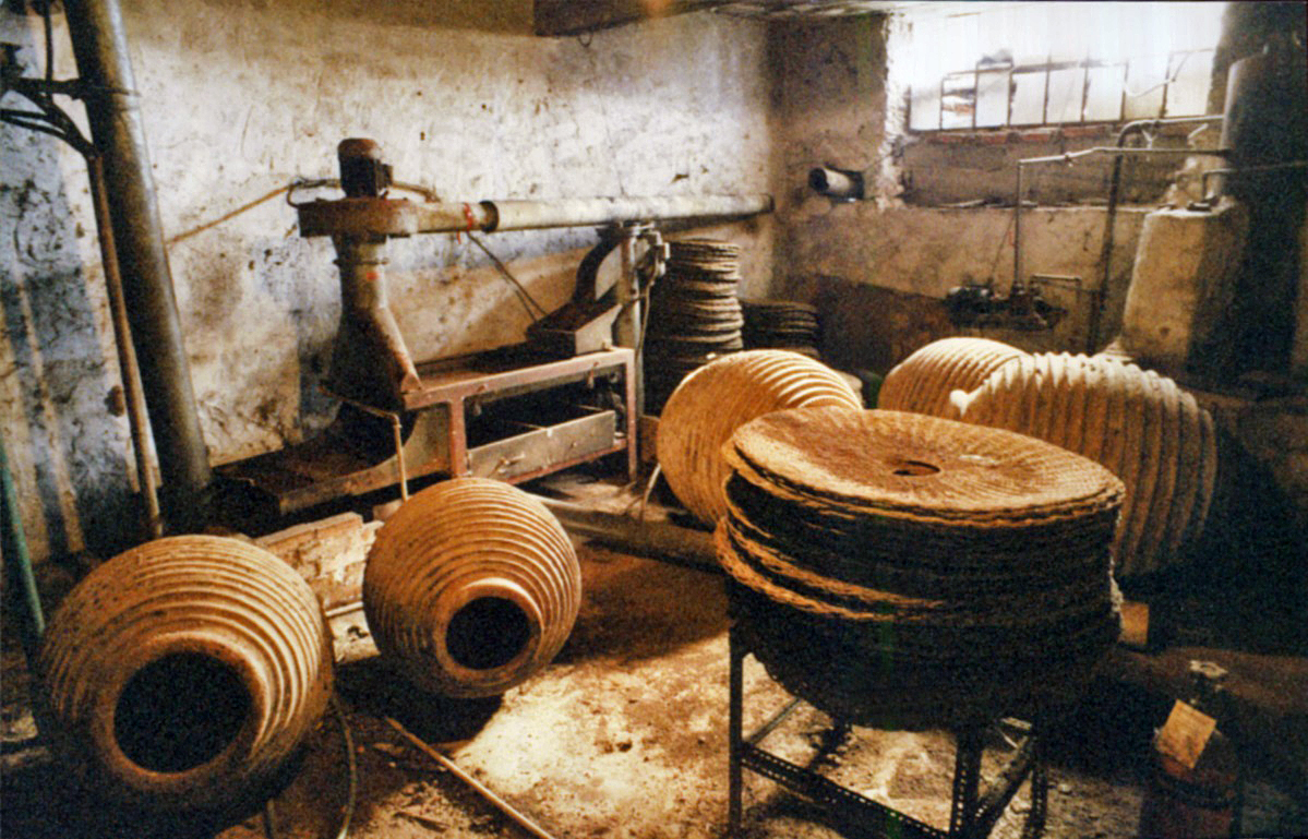 Clay live oil vessels (pythoi) of a traditional olive mill, Parapougki village, Messinia, Greece, early 20th c. Citation: Giannopoulou Mimika, "The research project for the olive culture in the Messinia prefecture", International Conference "The olive tree and olive oil from antiquity till today", Athens, October 1 & 2, 1999. Published by The Academia of Athens, 2003, pp. 293-295, photo No. 10, p. 475.